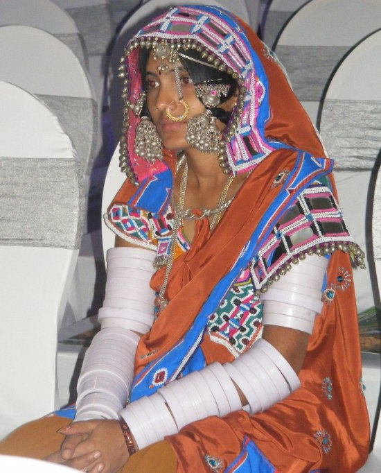 Banjara Lamadi or Lambani woman in traditional dress Andhra Pradesh